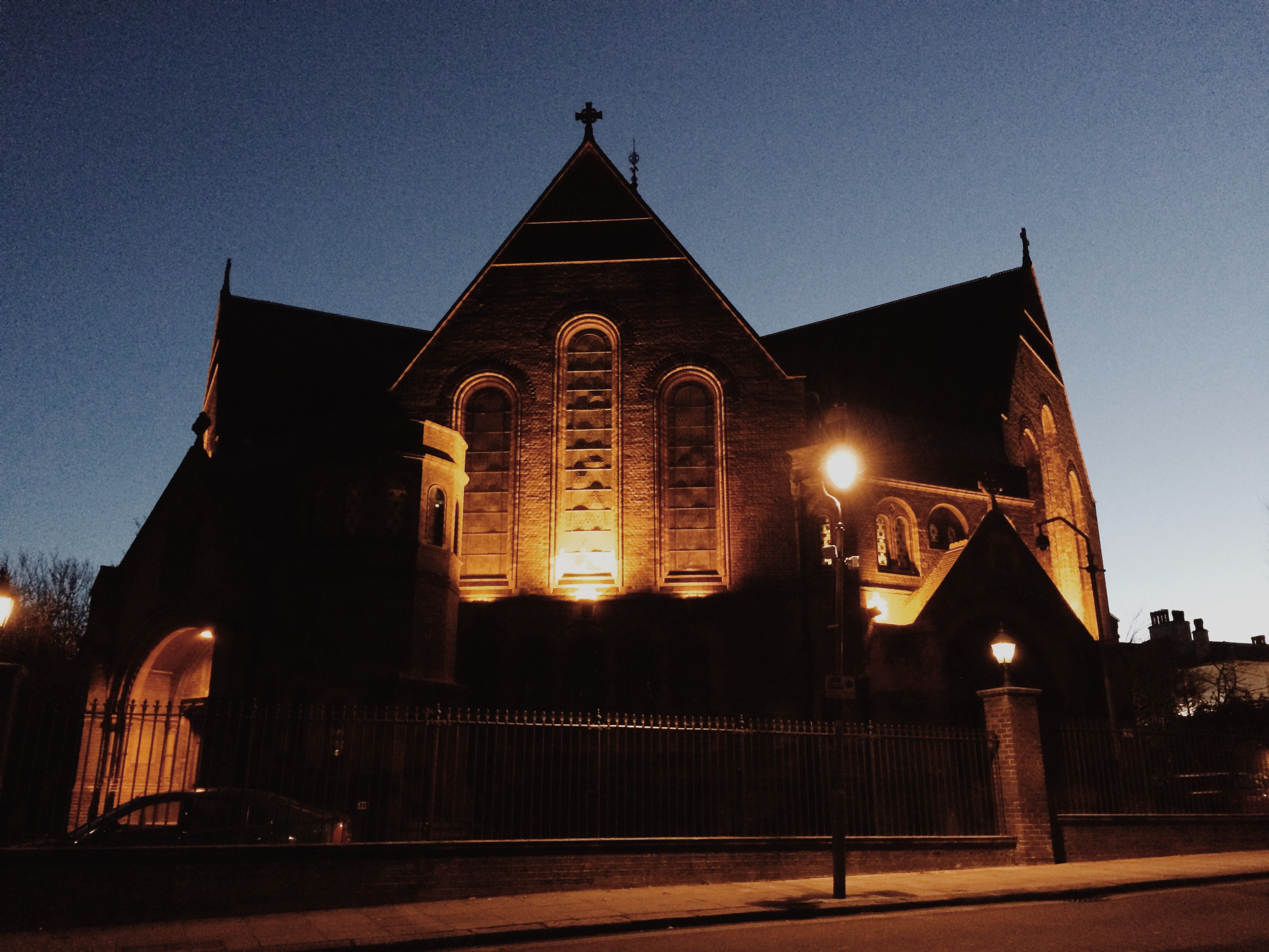 AIR Studios, Lyndhurst Road, Hampstead, London, seen at night. Designed by Alfred Waterhouse and built in 1884 as Lyndhurst Road Congregational Church. Converted into recording studios in 1991.